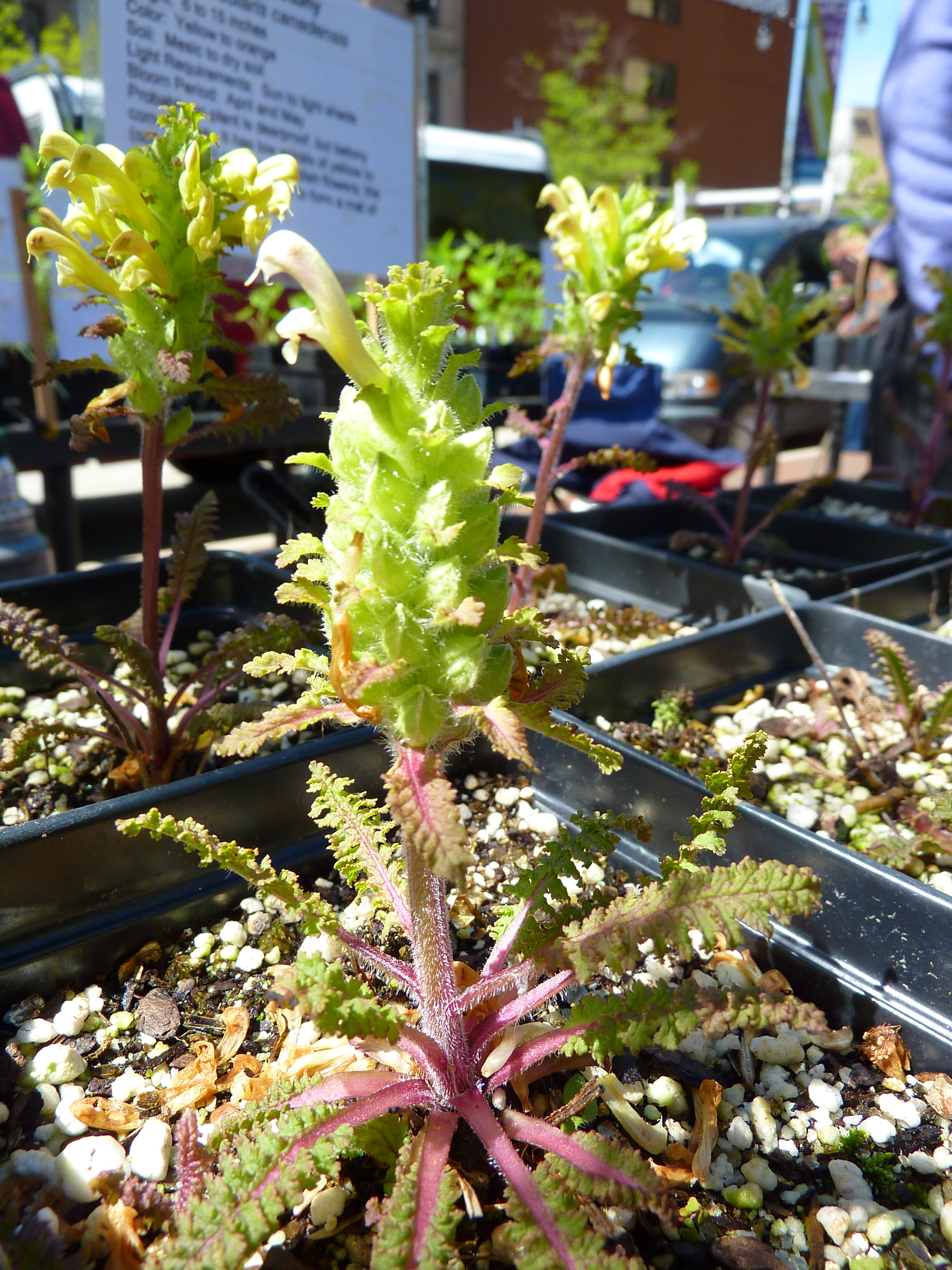 Pedicularis canadensis for sale at the Farmers Market in Madison, Wisconsin